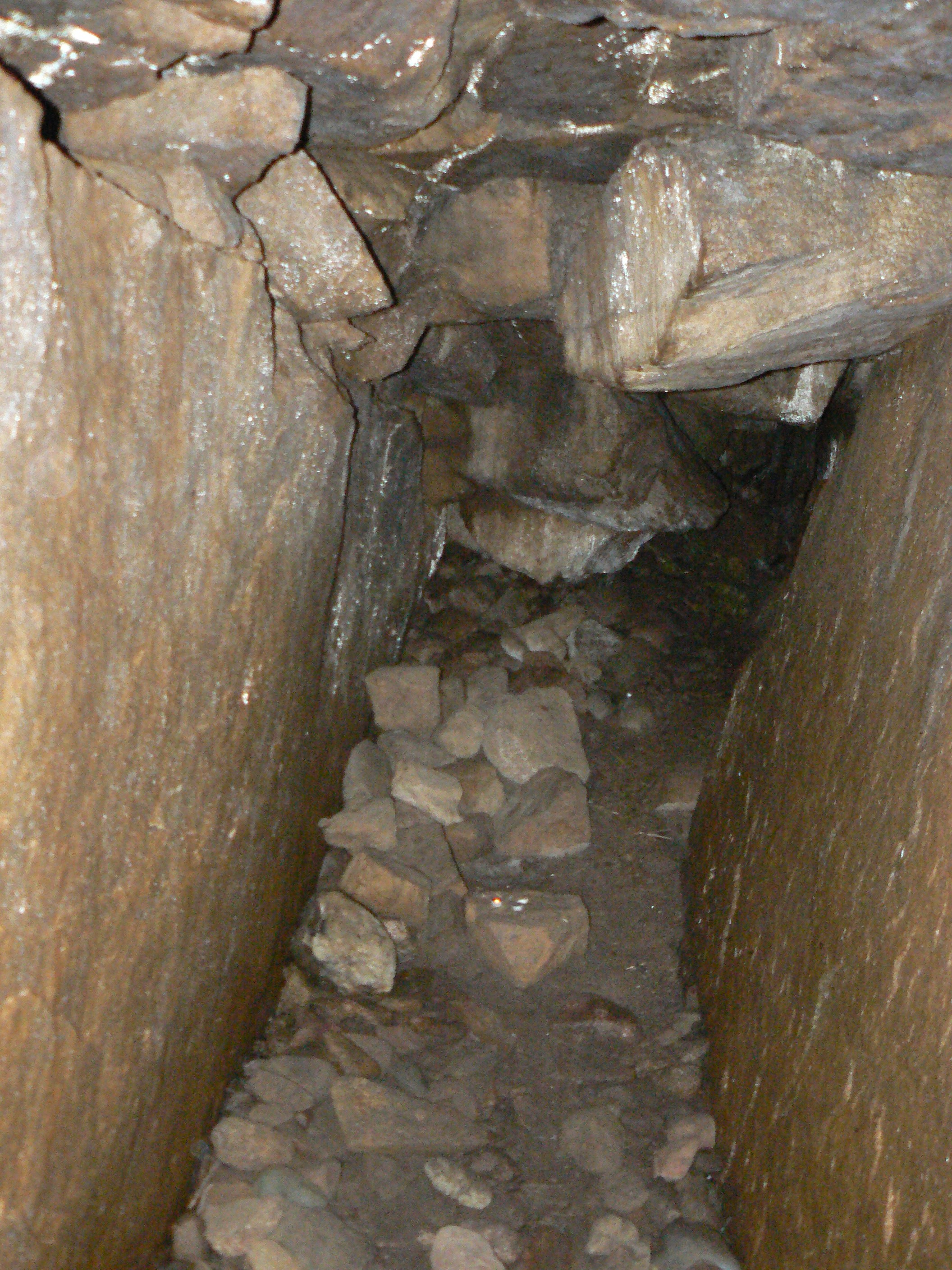 The cave at Solltorp in Linköping Municipality, Östergötland County, Sweden.